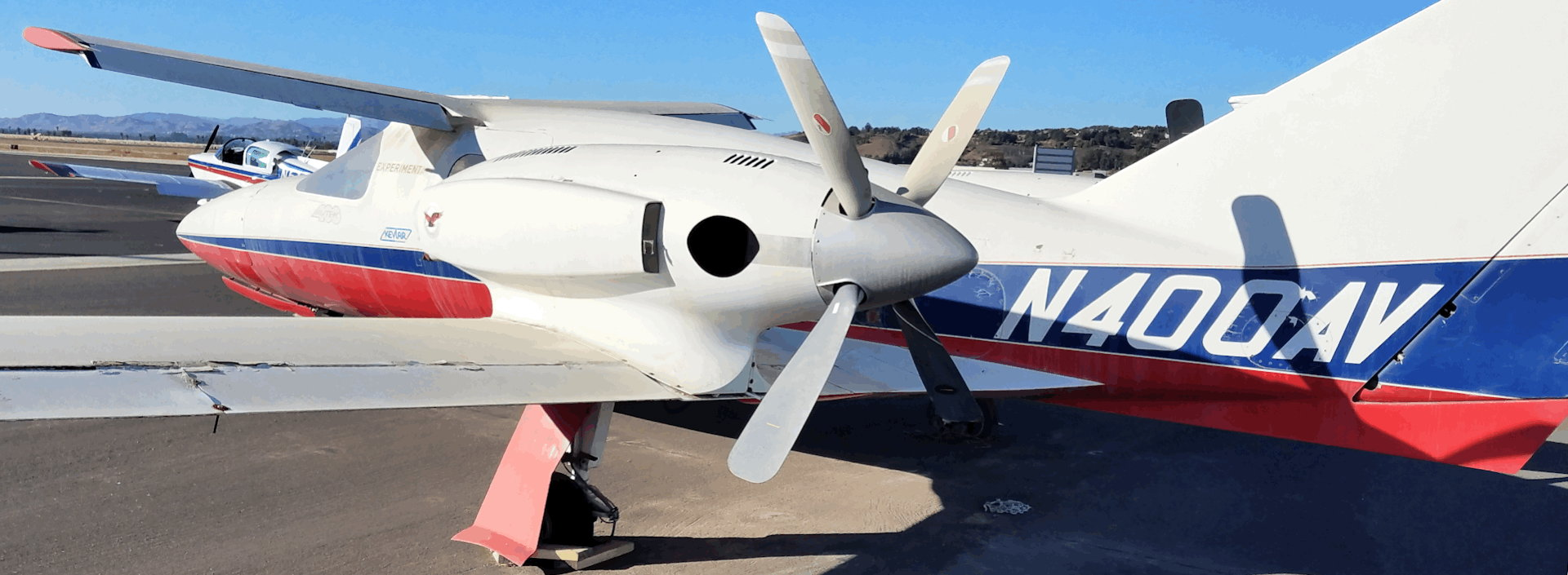 Aircraft:Avtek N400AV Prototype